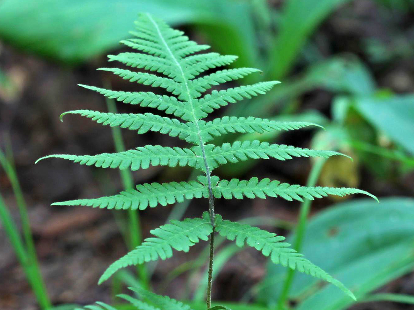 long beechfern - Phegopteris connectilis (Michx.) Watt (syn. Thelypteris phegopteris) - Hynes Township, Searchmont, Ontario, , Canada